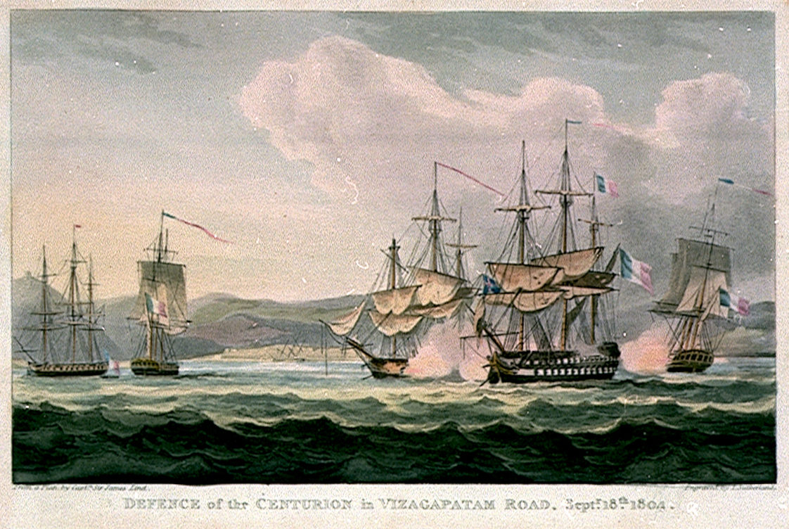 Defence of the Centurion in Vizagapatam Road, Septr. 15th 1804